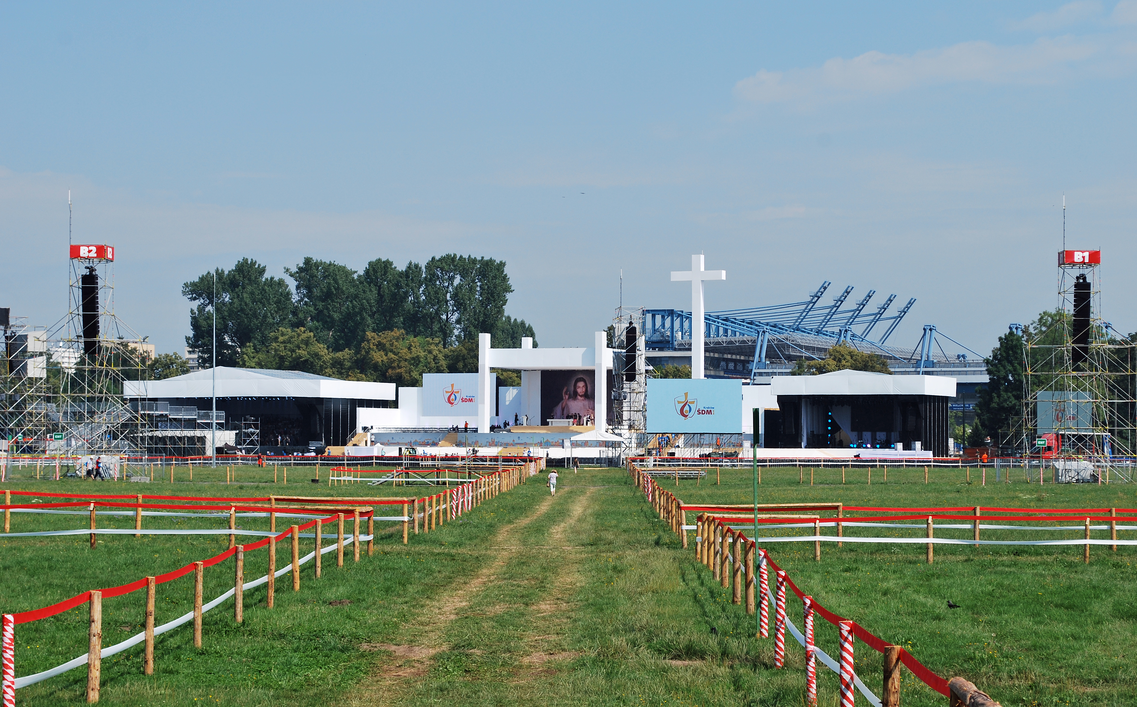 Błonia Meadow Park, World Youth Day 2016, altar, Krakow, Poland